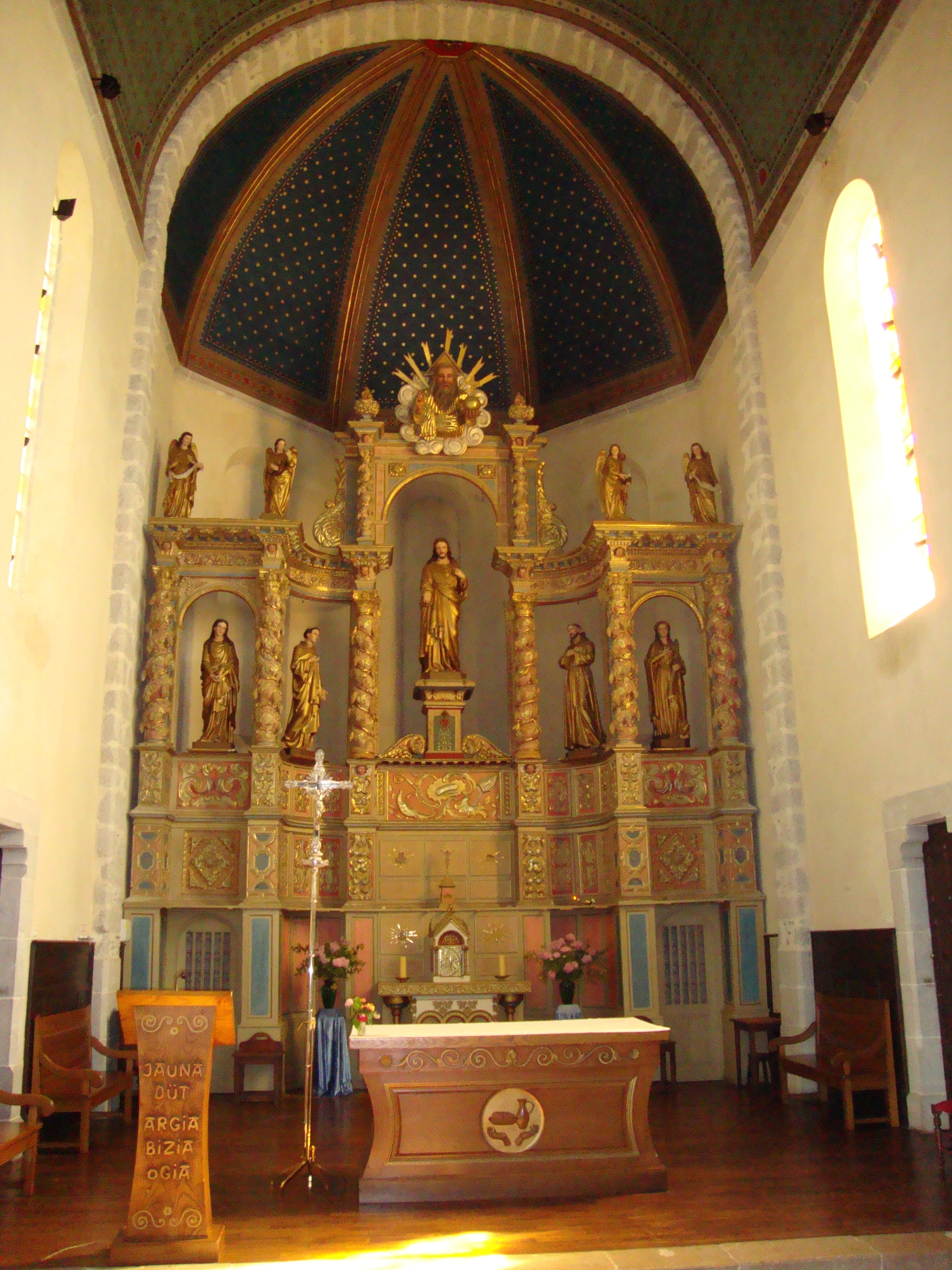 Tardets-Sorholus (Pyr-Atl, Fr) choir with altar piece